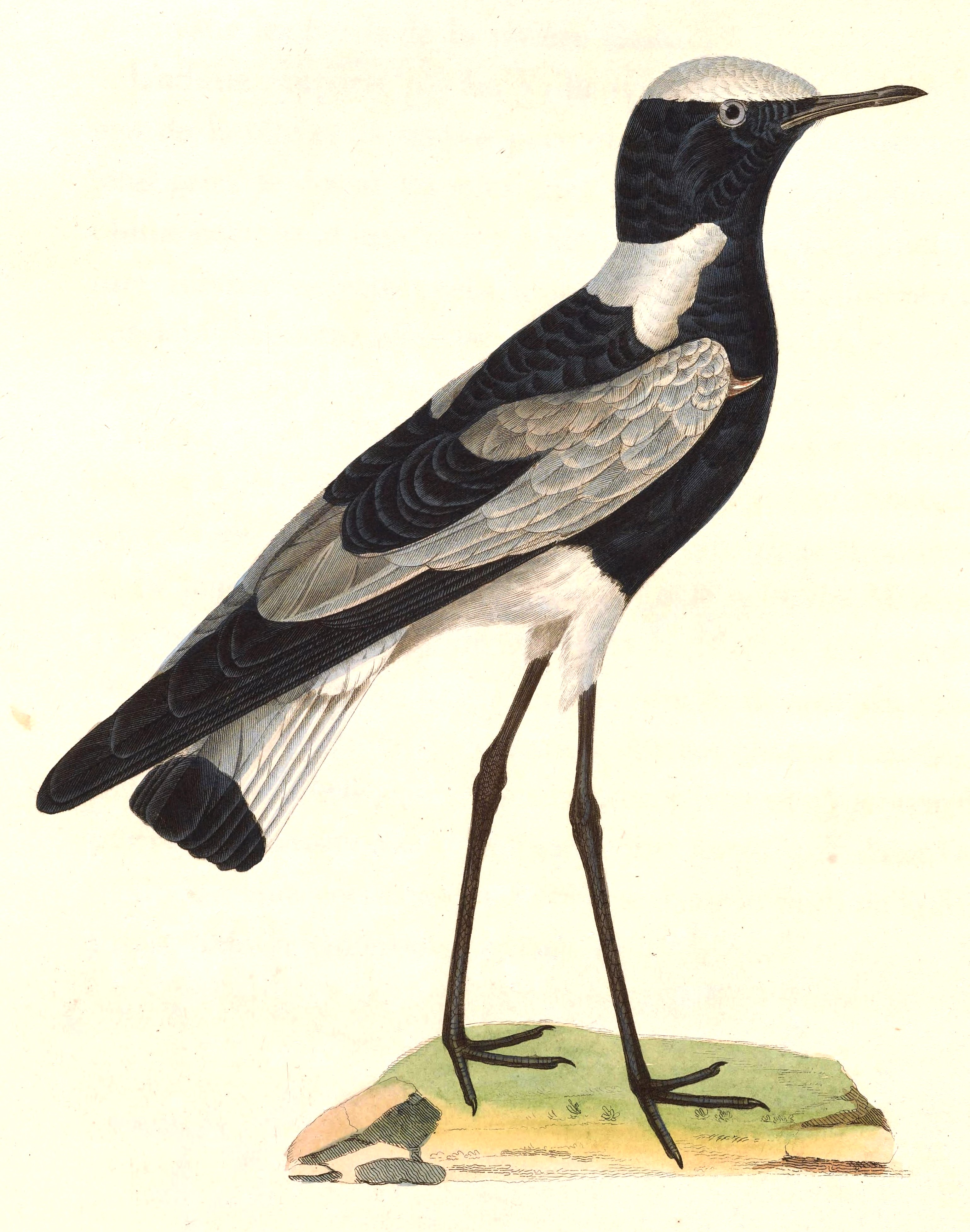 « Charadrius albiceps » = Vanellus armatus (Blacksmith Lapwing) - adult